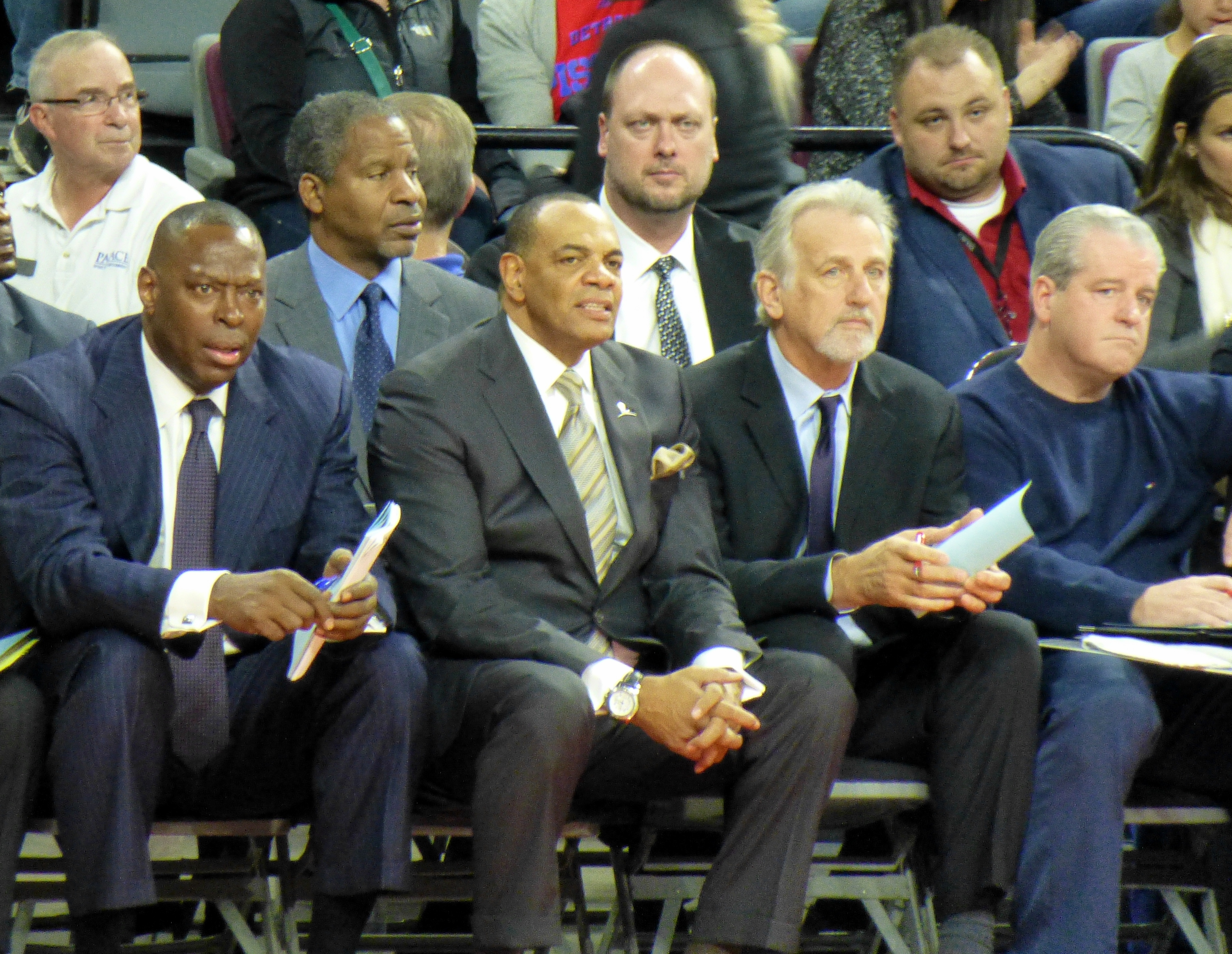 Brooklyn Nets coaches during the game vs. Detroit Pistons on November 1, 2014. Left to right: Tony Brown (asst.), Jay Humphries (asst.), Lionel Hollins (head), Joe Wolf (asst.), Paul Westphal (asst.), Tim Walsh (trainer)